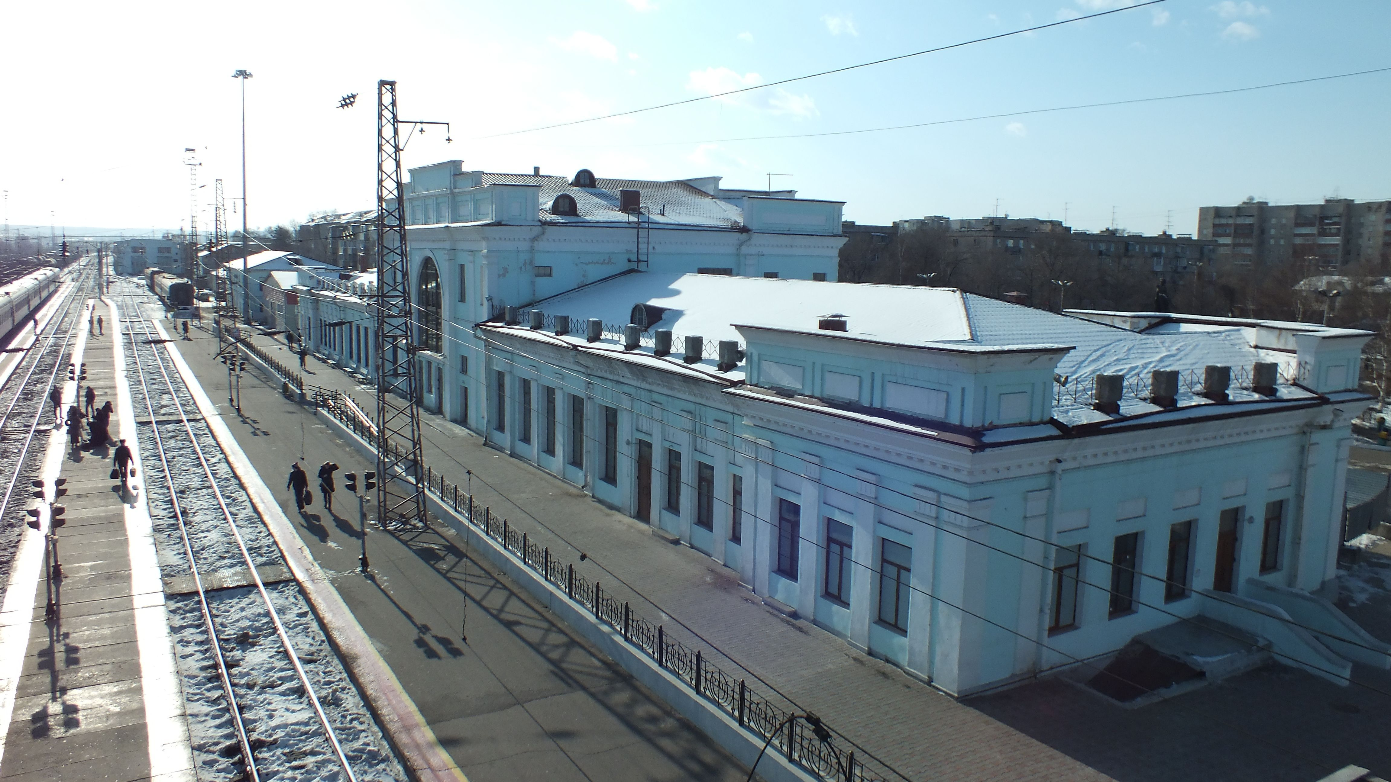 Ussuriysk